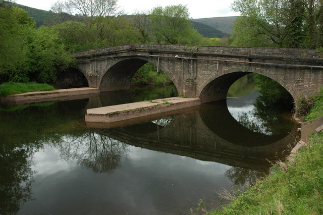 Usk Bridge at Llanellen This bridge carries the busy Abergavenny to Pontypool road over the River Usk at Llanellen, the bridge was built in 1821 by John Upton of Gloucester.